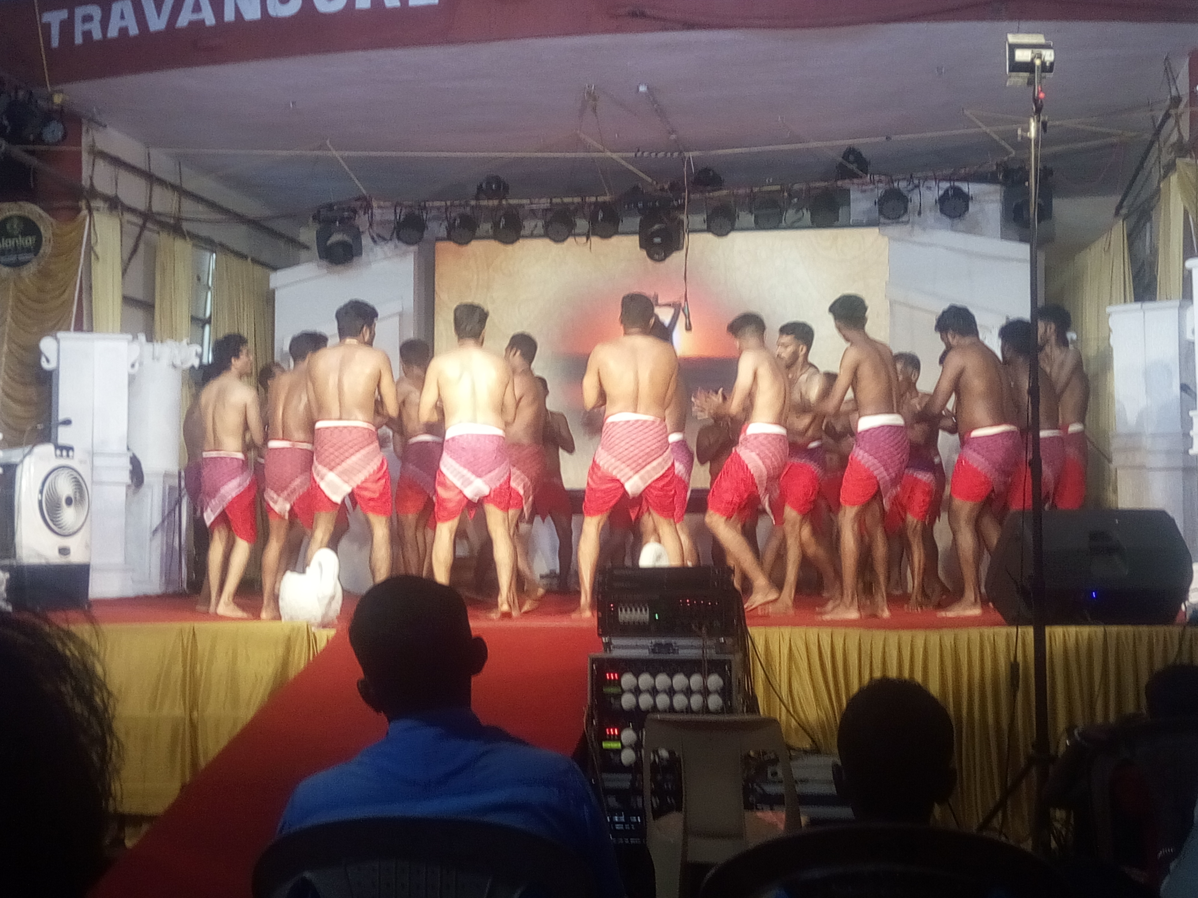 Poorakkali is a traditional art in north Kerala. Krishna bhakti is main theme. Influence of kalari is significant.